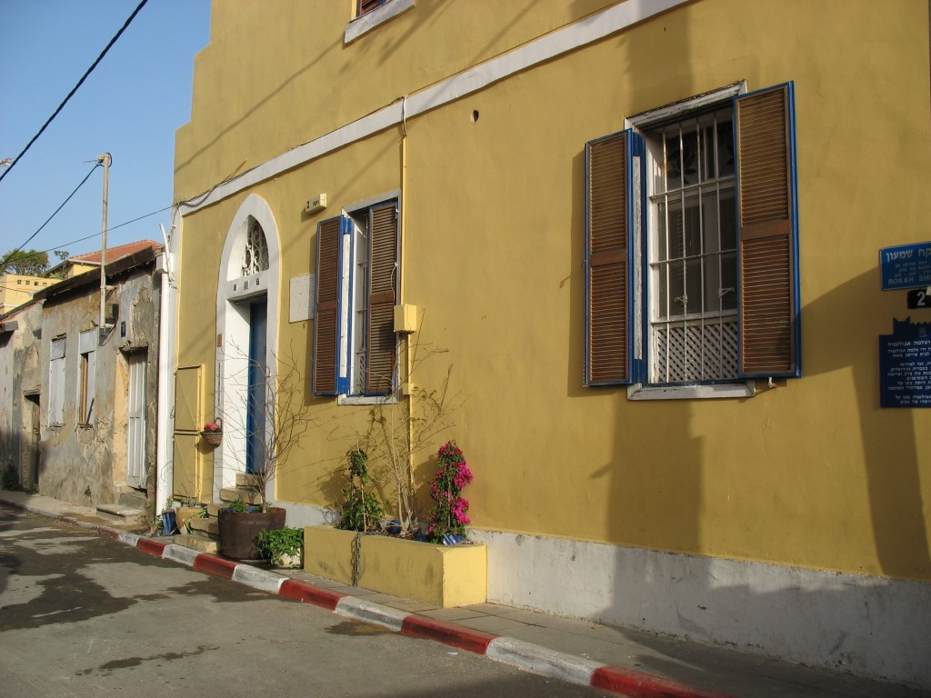 Shmuel Joseph Agnon's house in Neve Tzedek, Tel Aviv.